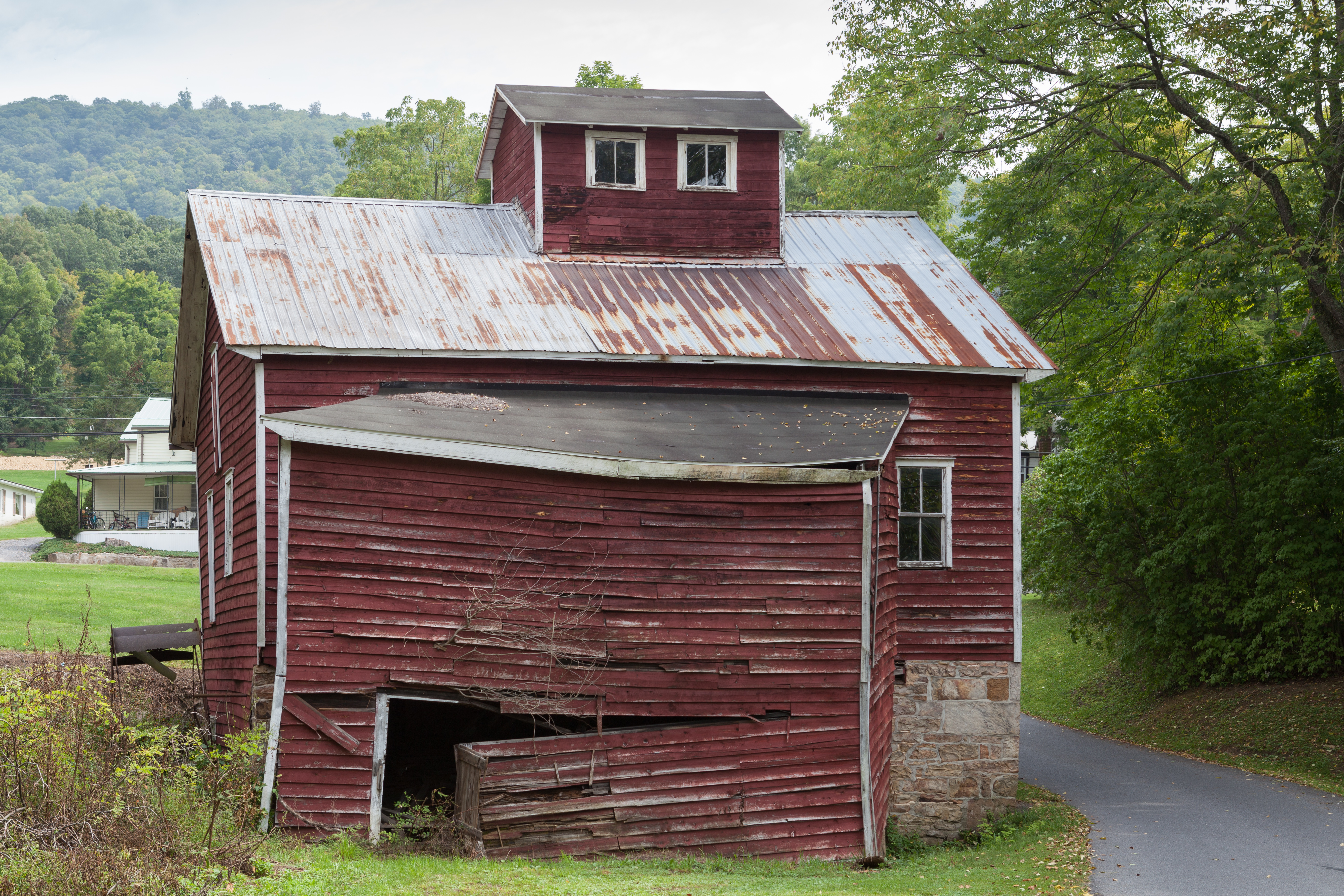 Hudson Grist Mill, the west side and shed addition, and the remains of a Fitz steel water wheel